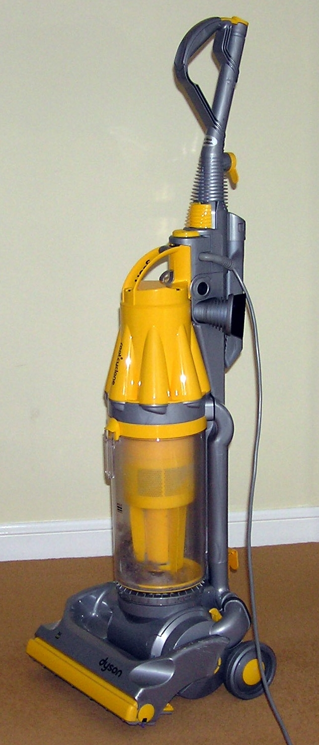 Dyson vacuum cleaner, model DC07 . Taken in England by Adrian Pingstone in October 2004 and released to the public domain.